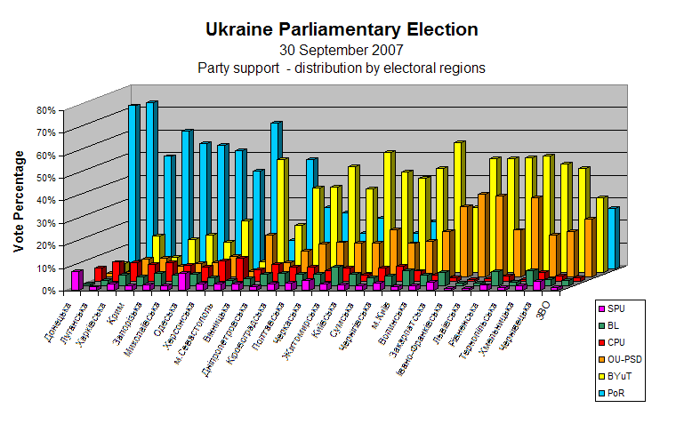 Ukrainian parliamentary election, 2007.